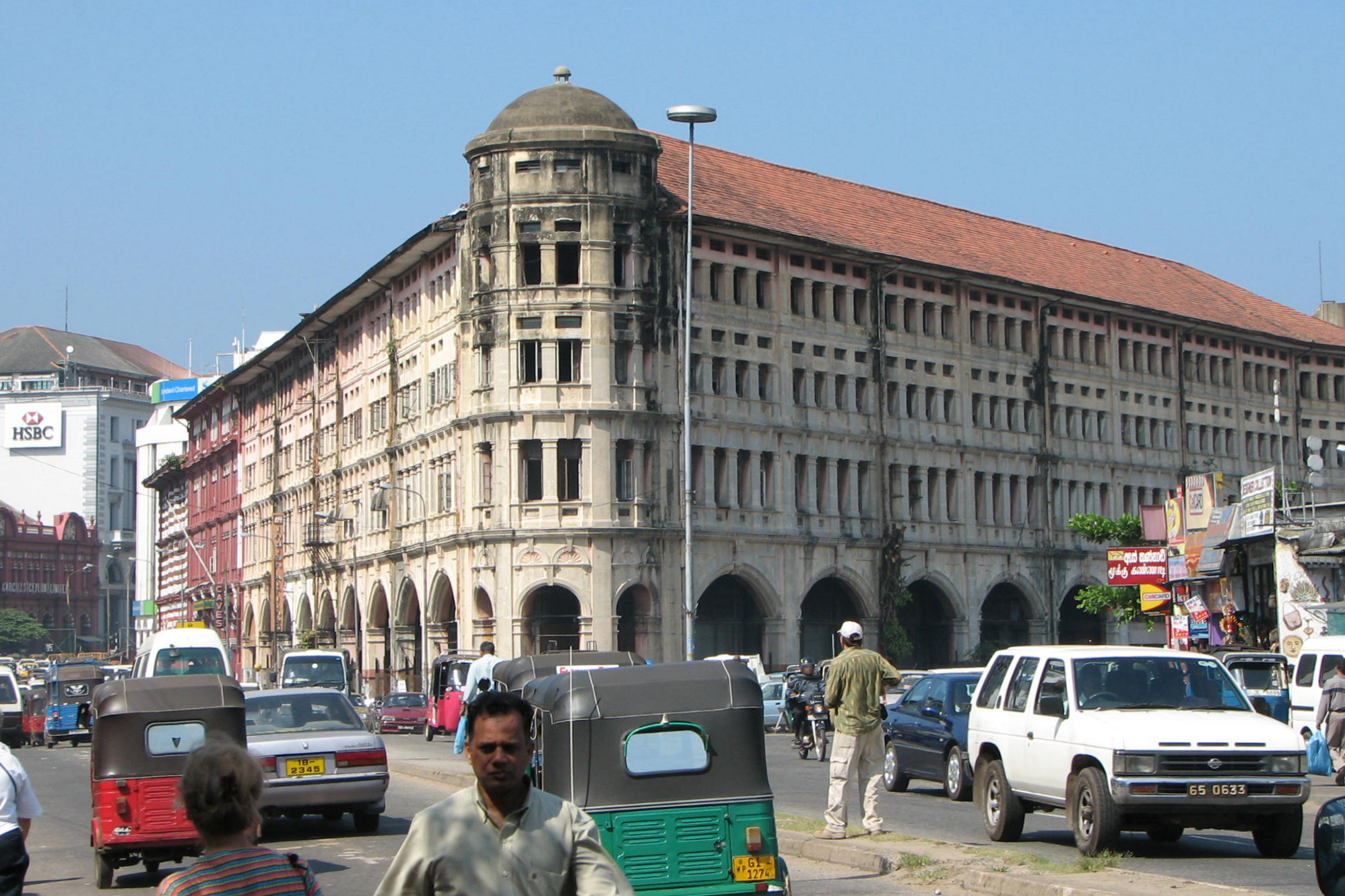 Main Street in the Fort with the Gafoor Building in the background, Colombo, Sri Lanka.